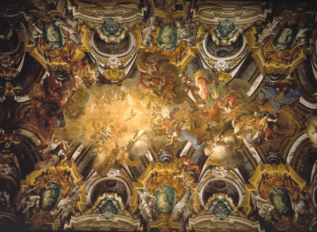 Roof of the Sansevero Chapel in Naples.